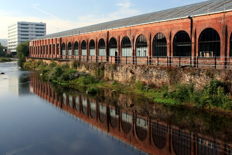 Albion Works reflection